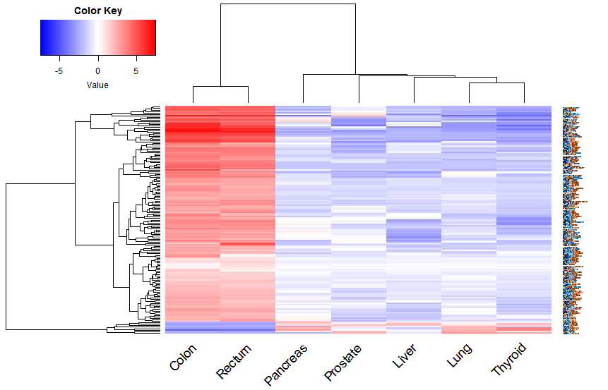 heat maps of RNAseqV2